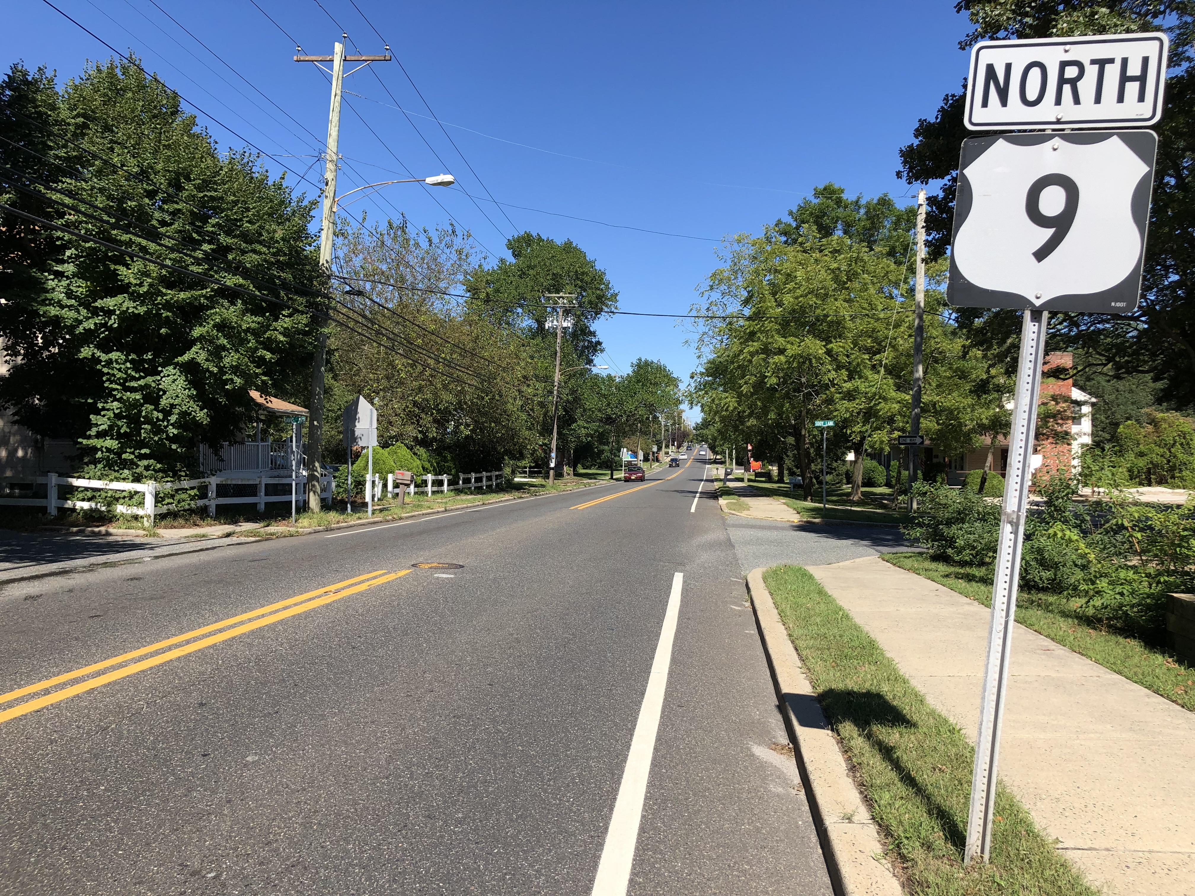 View north along U.S. Route 9 (Shore Road) just north of Lisbon Avenue in Absecon, Atlantic County, New Jersey